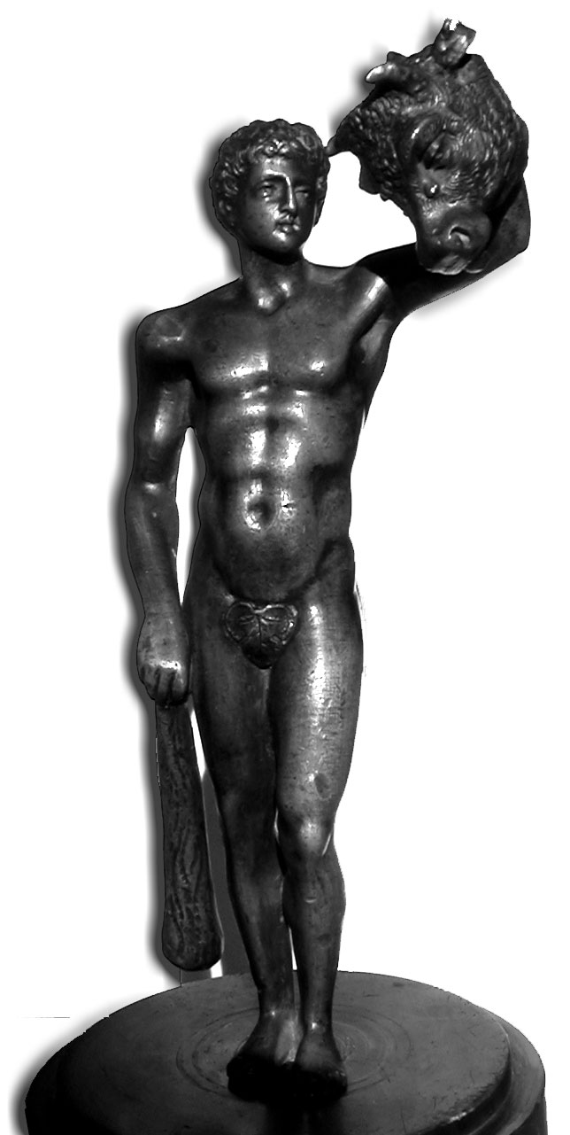 Theseus with the Head of Minotaur